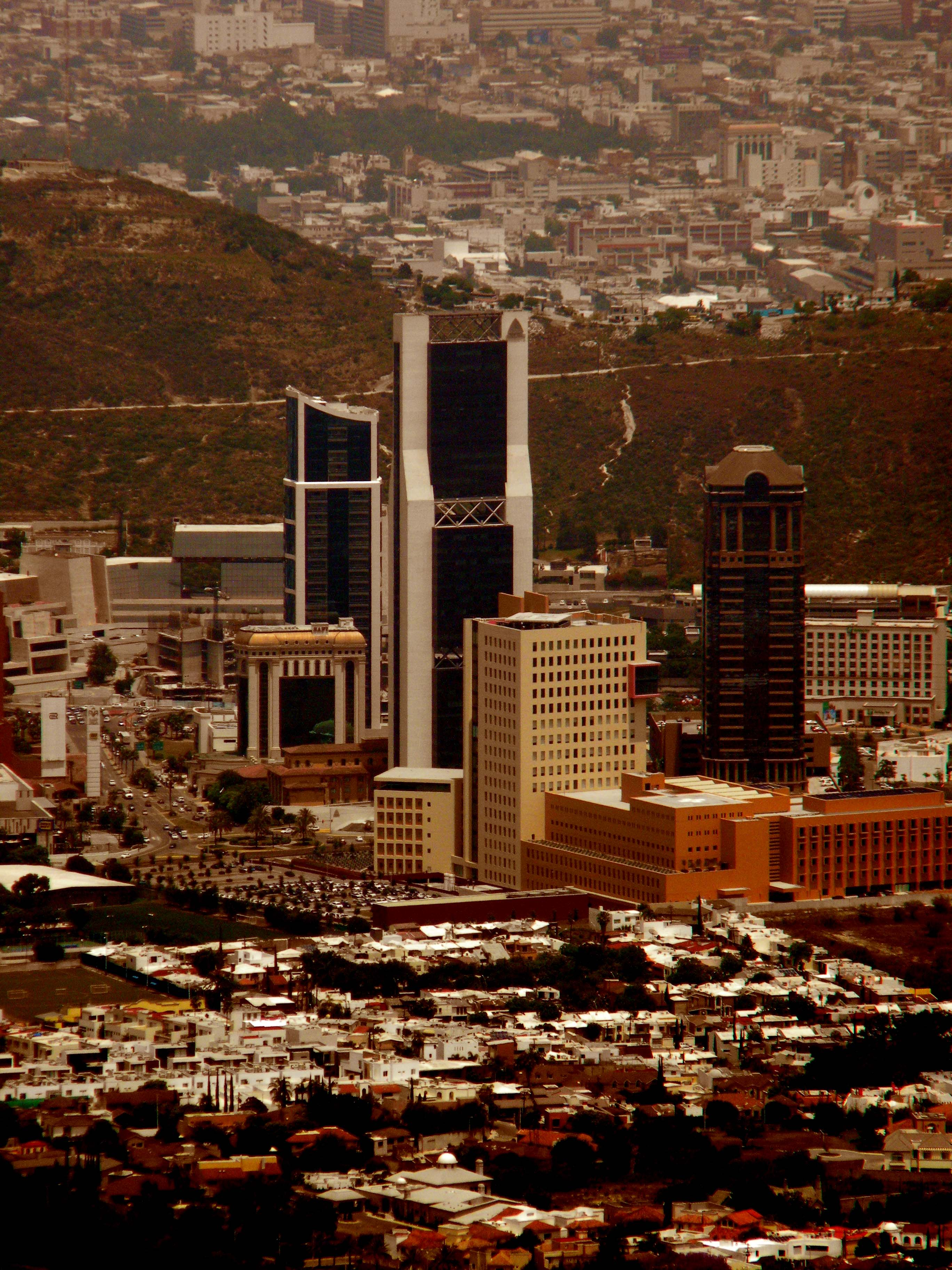 San Pedro Garza García, México